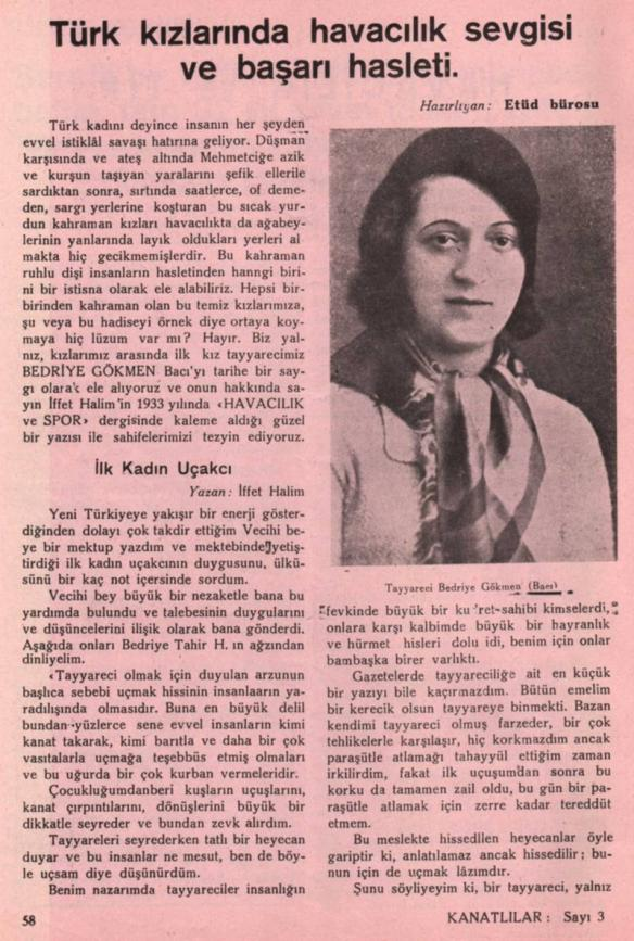 News cutting from 1933, issue 5 of discontinued Turkish magazine "Kanatlılar".